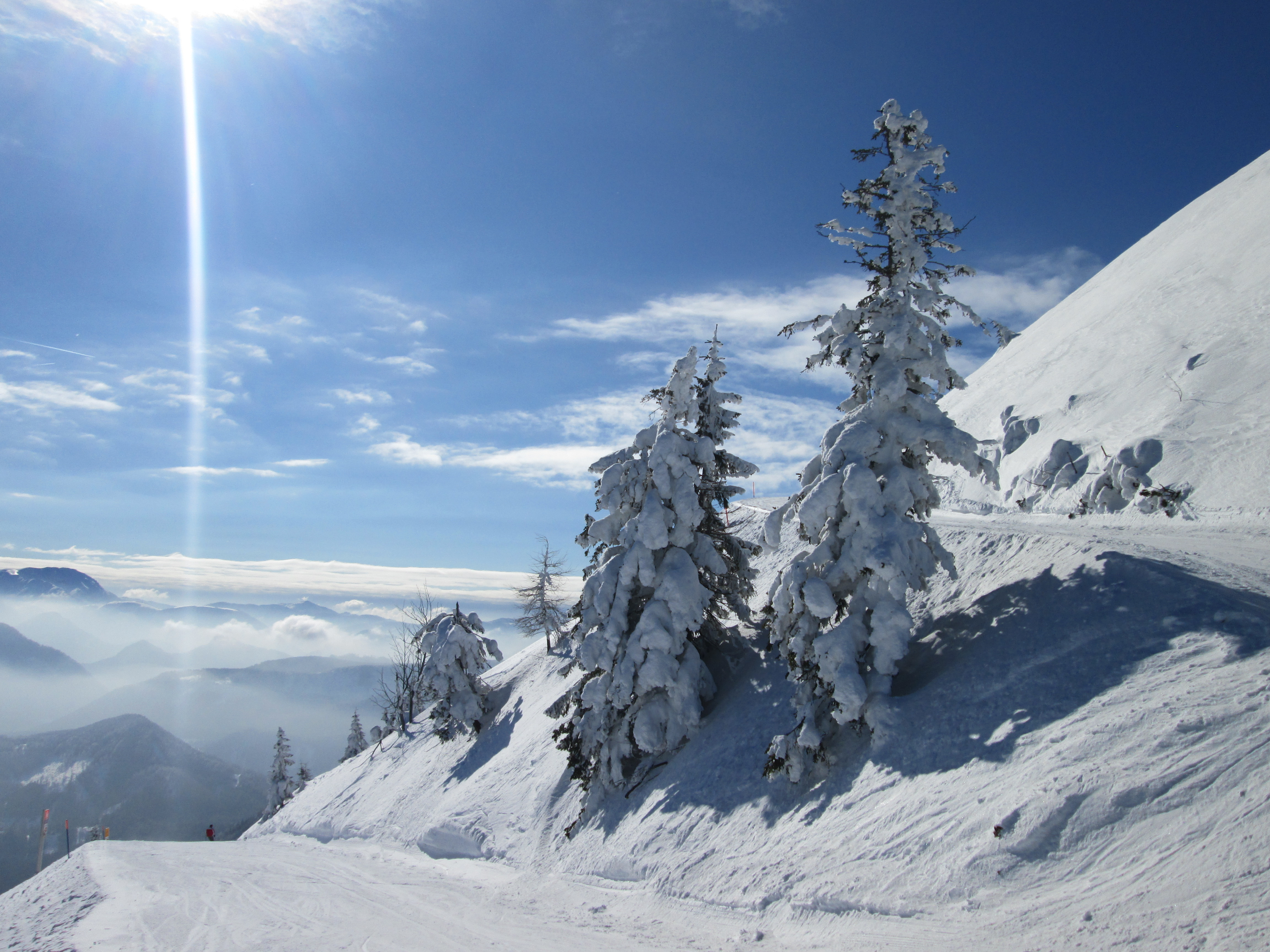 View from Gemeindealpe (Ybbstaler Alpen, Austria), a sunny day in February 2018.